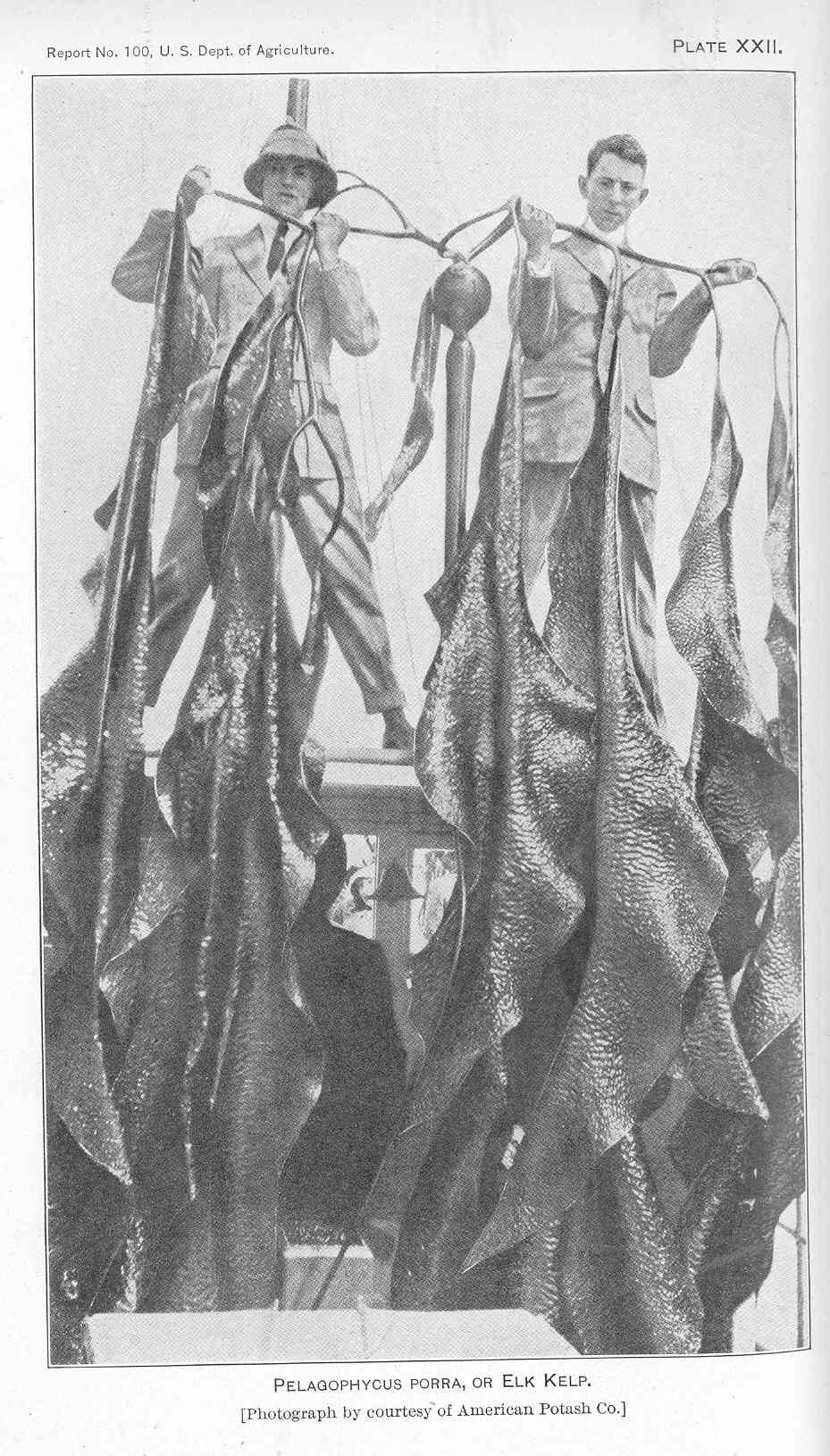 Pelagophycus Porra, or Elk Kelp Subject: Kelps, Pelagophycus porra Tag: Aquatic Botany